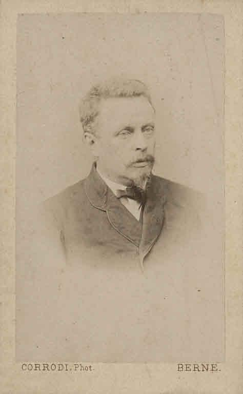 Hans Hold, Swiss politician